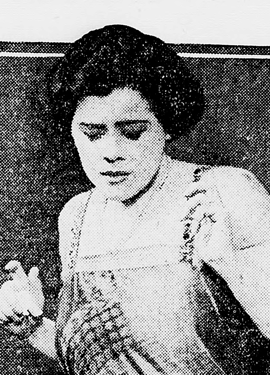 Janet Beecher (October 21, 1884 - August 6, 1955) born Janet Meyersburg was a stage and screen actress. This image is from a newspaper.